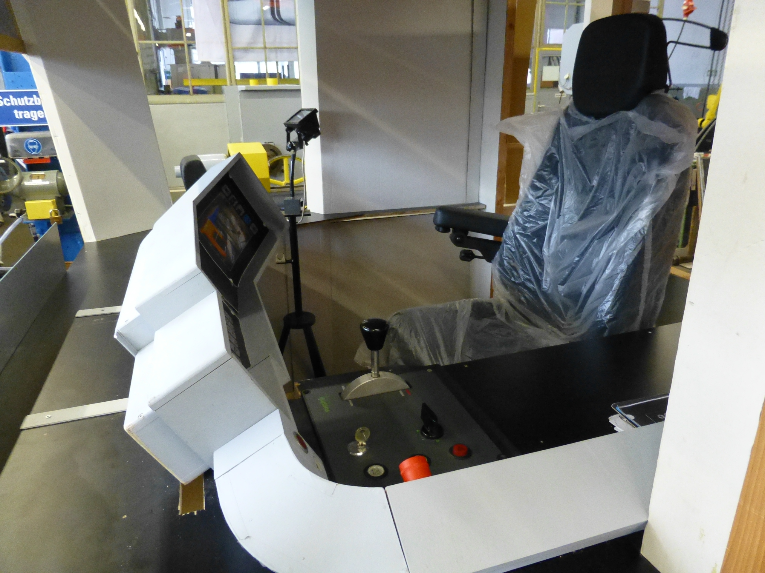 The action "We invite Samuel to Wuppertal".